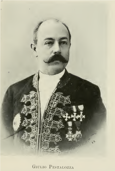 The Italian diplomat who brokered the Dervish Illig Treaty 1904-1905.